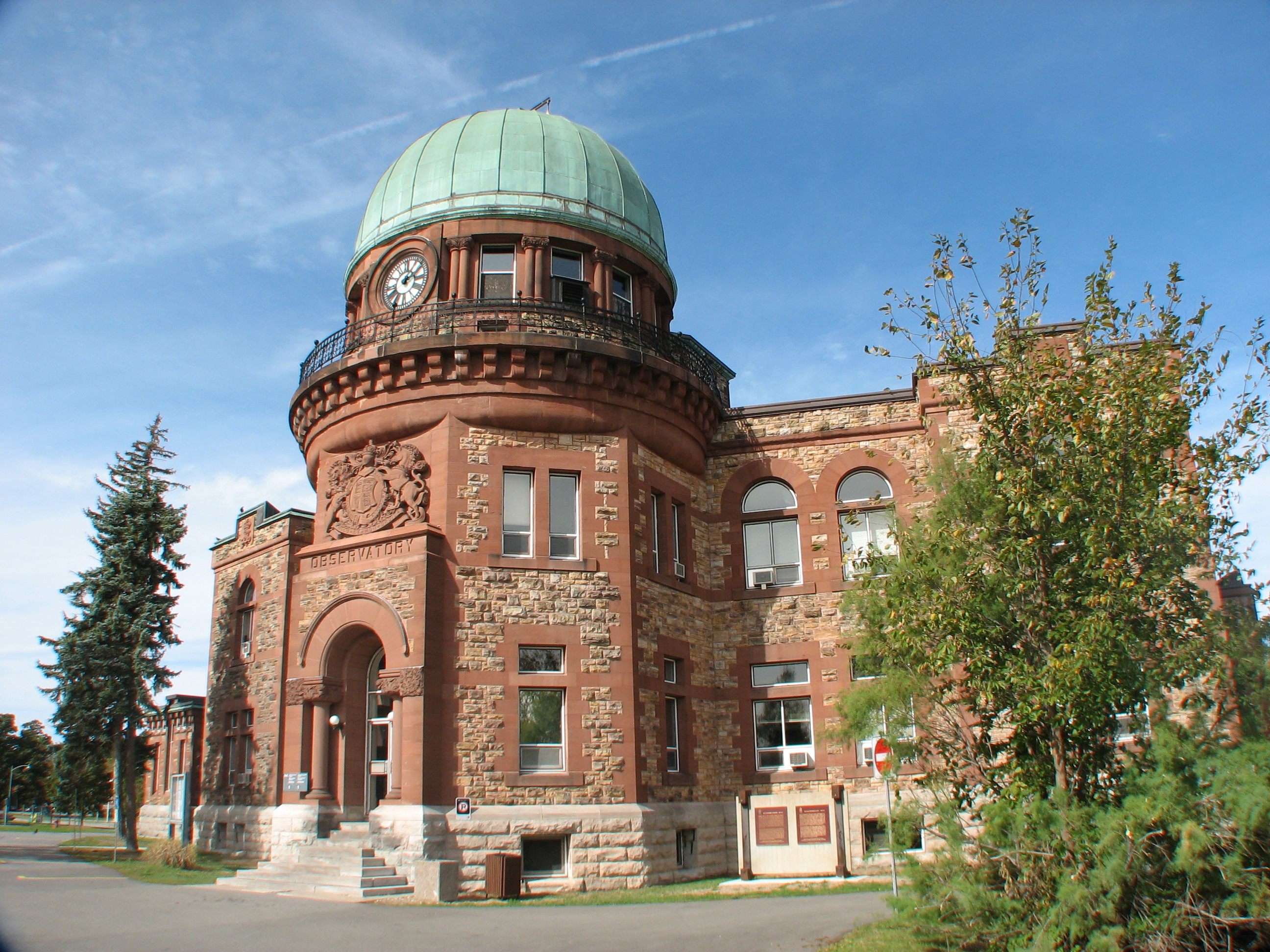 my own stock